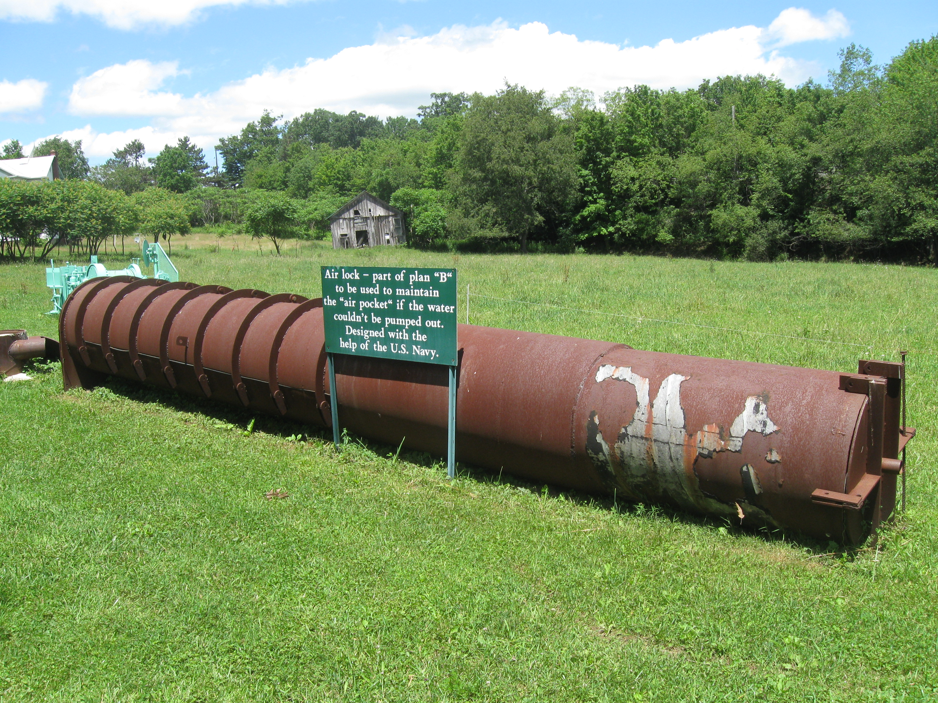 This airlock, designed with the aid of the U.S. Navy, was designed to prevent decompression sickness upon rescuing the miners during the Quecreek Mine Rescue in 2002. Ultimately, the pressure was even between the surface and the mine and the airlock was not needed.